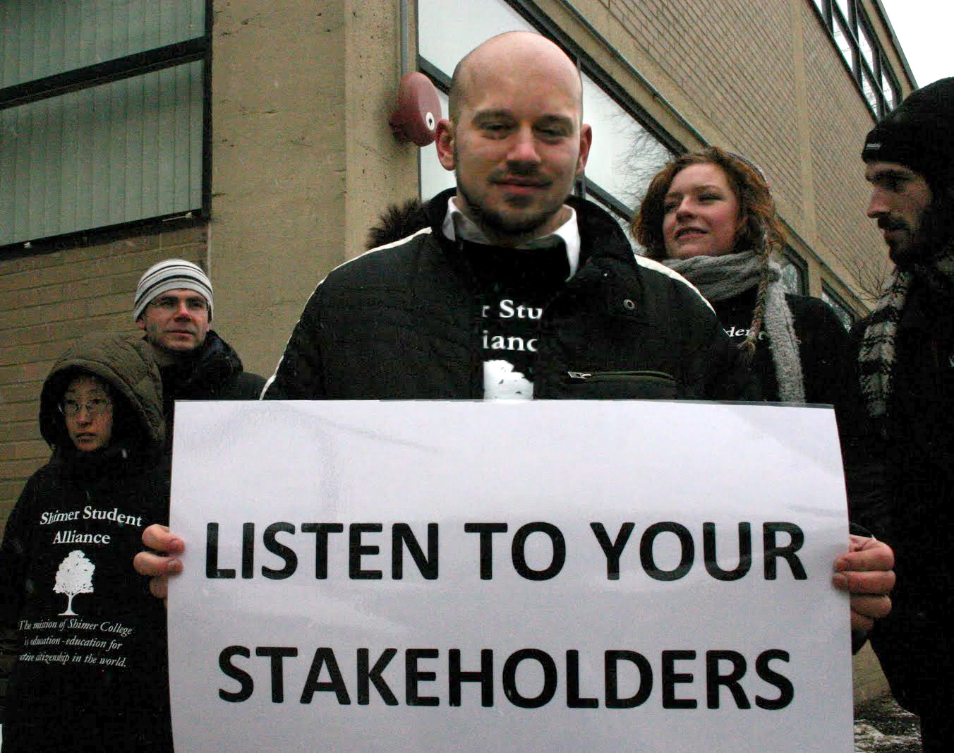 Shimer College student holds sign reading "Listen to your stakeholders" during a protest of an attempted change to the school's mission and governance structure in 2010.